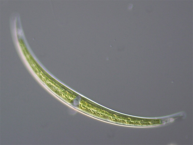 Closterium sp. / from Fukuroda Falls, Daigo, Ibaraki, Japan / Microscope:Leica DMRD (DIC)